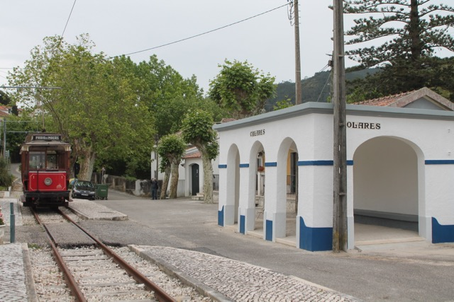 Sintra tram no.1 at the Colares shelter